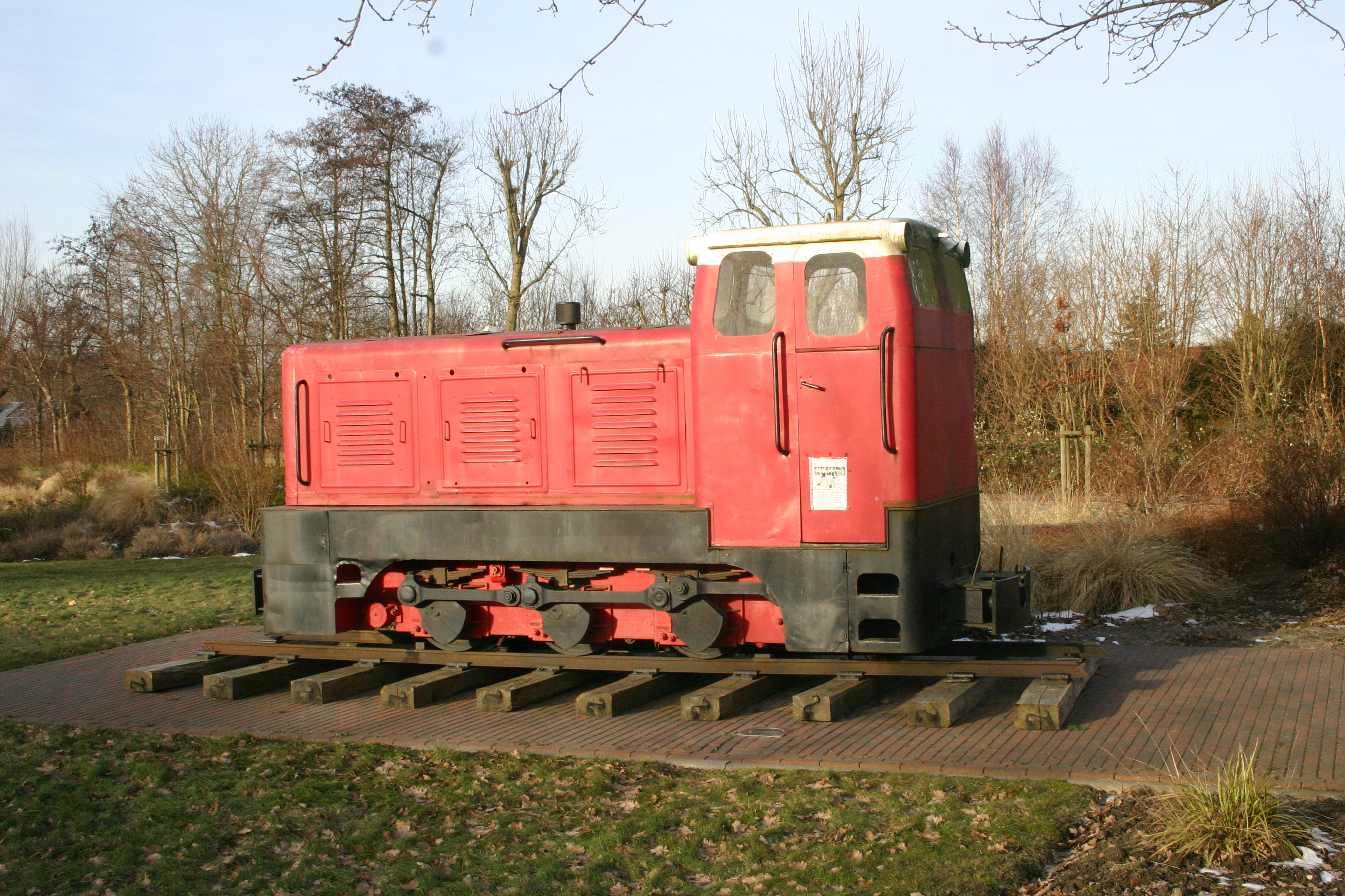 Narrow-gauge-locomotive, made in the German Democratic Republic. It now serves as a monument for the former narrow-gauge railroad between Emden and Greetsiel in Pewsum, East Frisia, Germany.